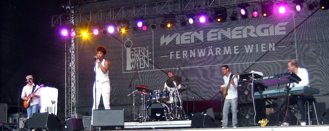 Singer N'Dambi during her concert at the Vienna Jazz Festival 2010.